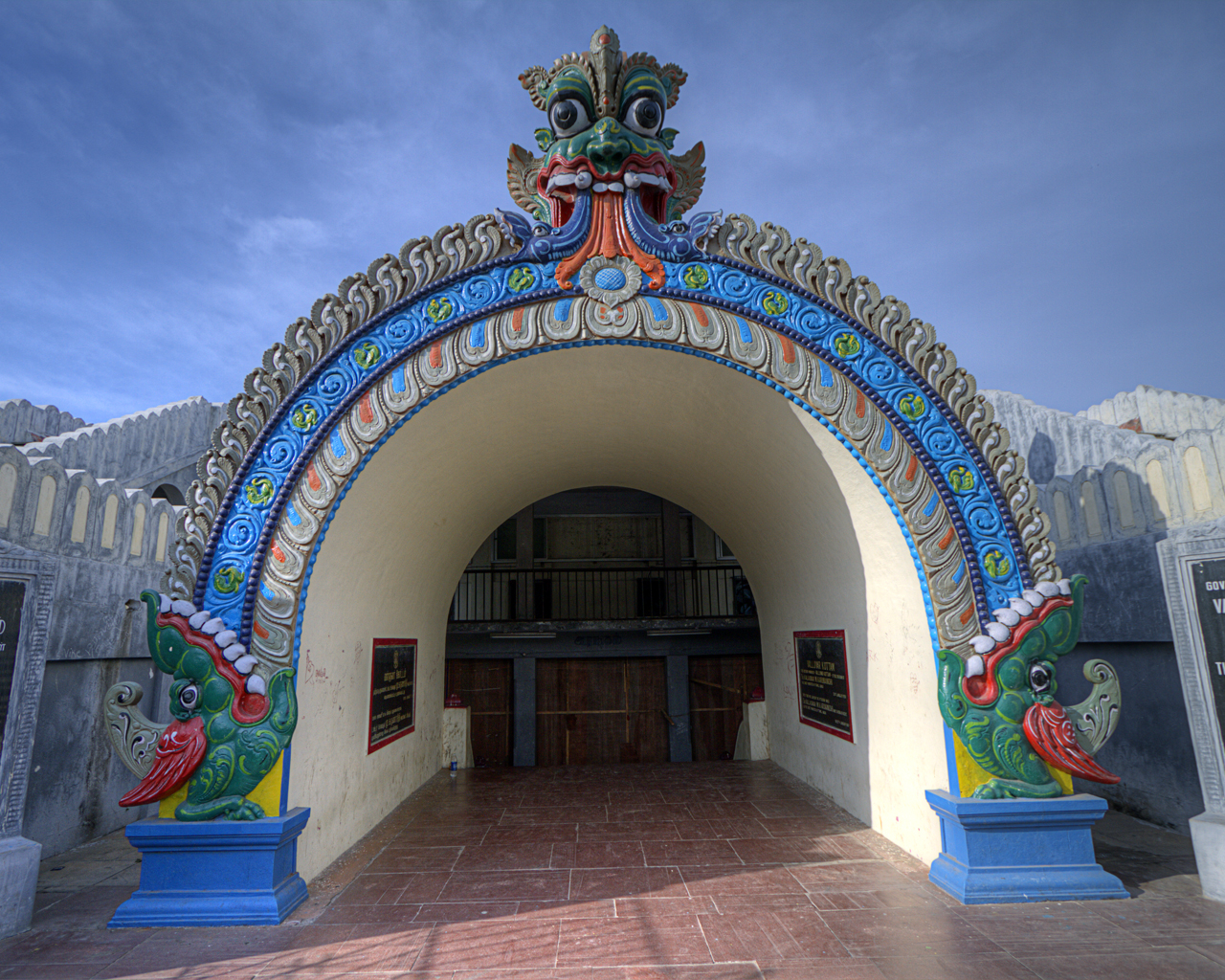 Taken at Valluvar Kottam, Chennai